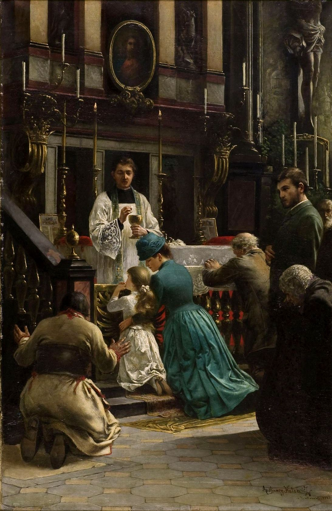 First Communion